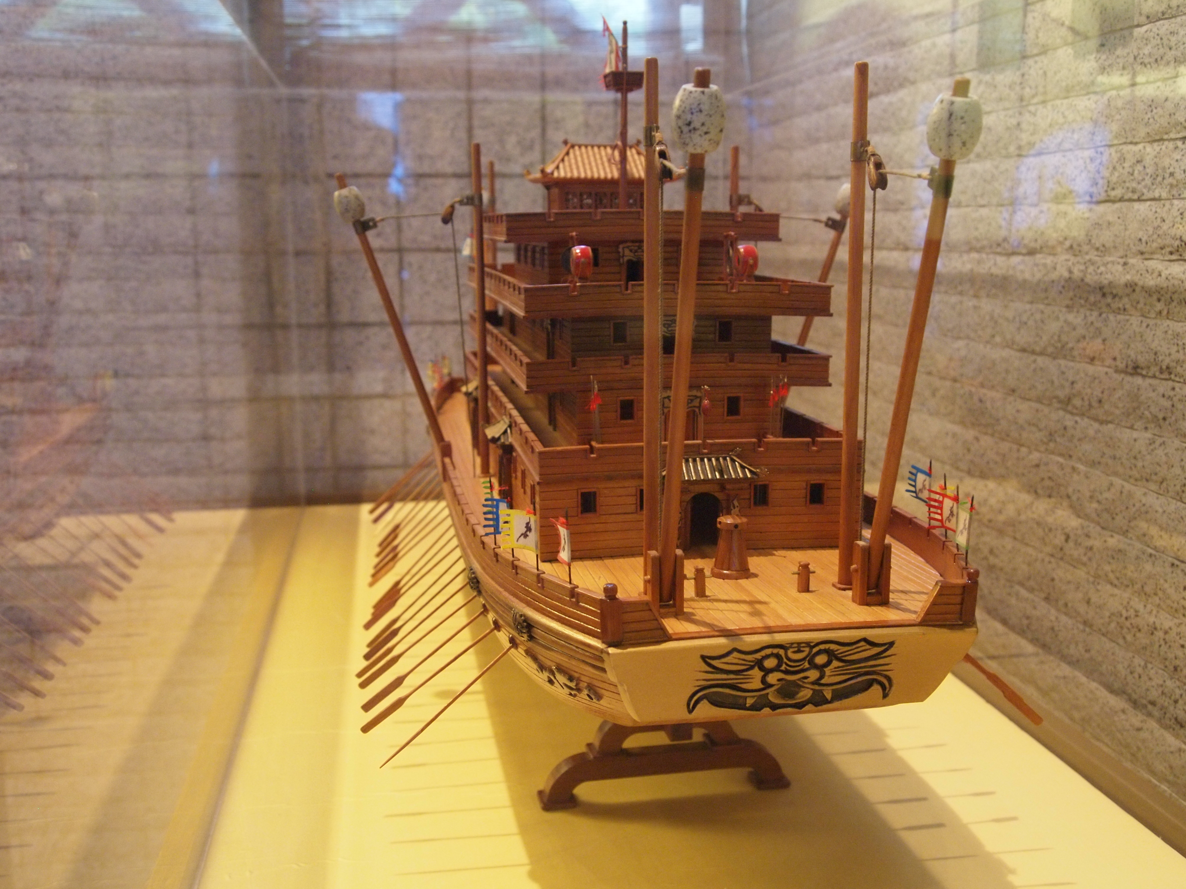 Sui dynasty five storey junk